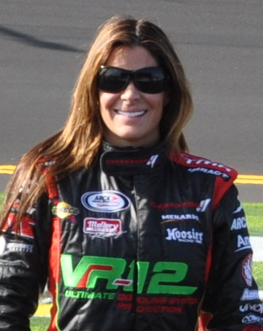 ARCA driver Maryeve Dufault posing for photographers at Daytona International Speedway before their 2011 race.